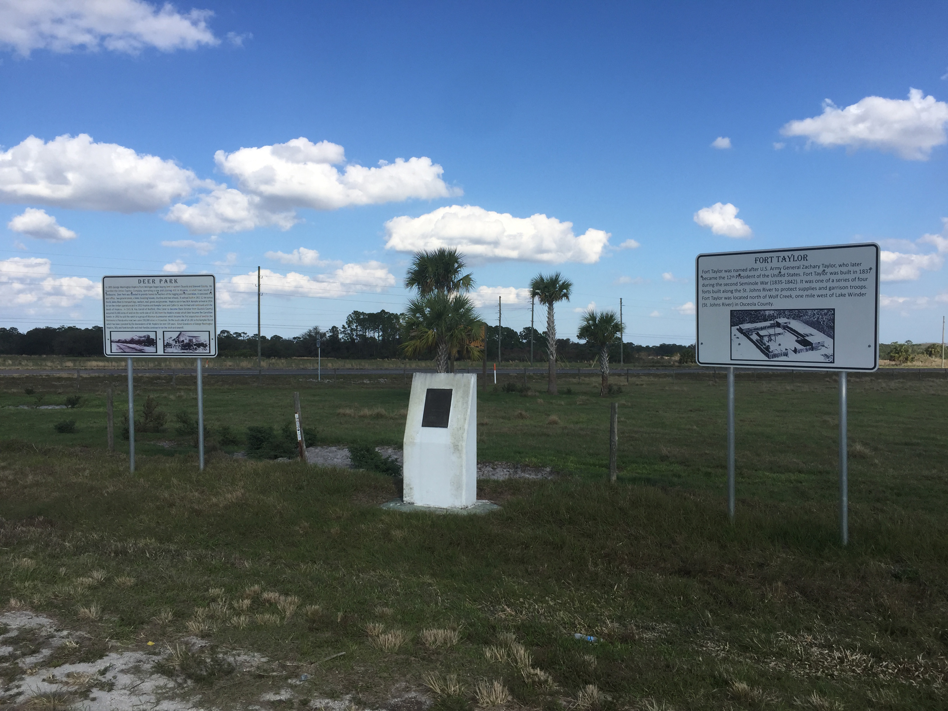 Fort Taylor at the intersection of Kempfer Road and U.S. Route 192 / Florida State Road 500 (East Irlo Bronson Memorial Highway / Space Coast Highway) in St. Cloud, Florida in Deer Park.